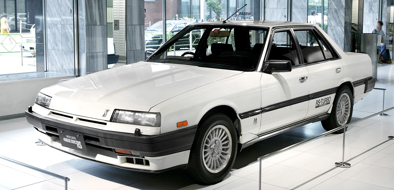 Nissan Skyline DR30 Sedan 2000 RS-X Turbo with Intercooler.